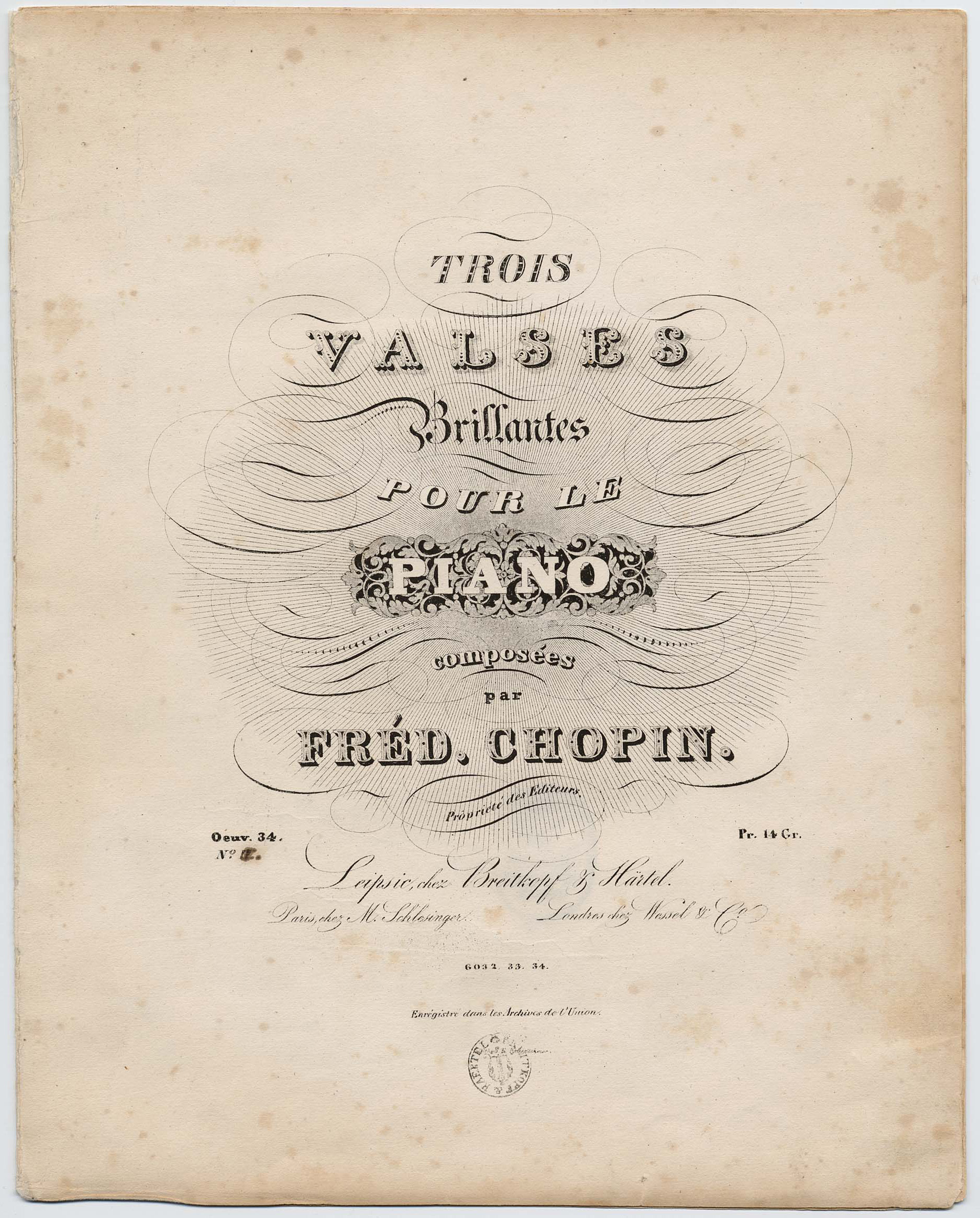 Cover page of Chopin's Trois Valses Brillantes, Op. 34, published by Breitkopf & Härtel in 1838.